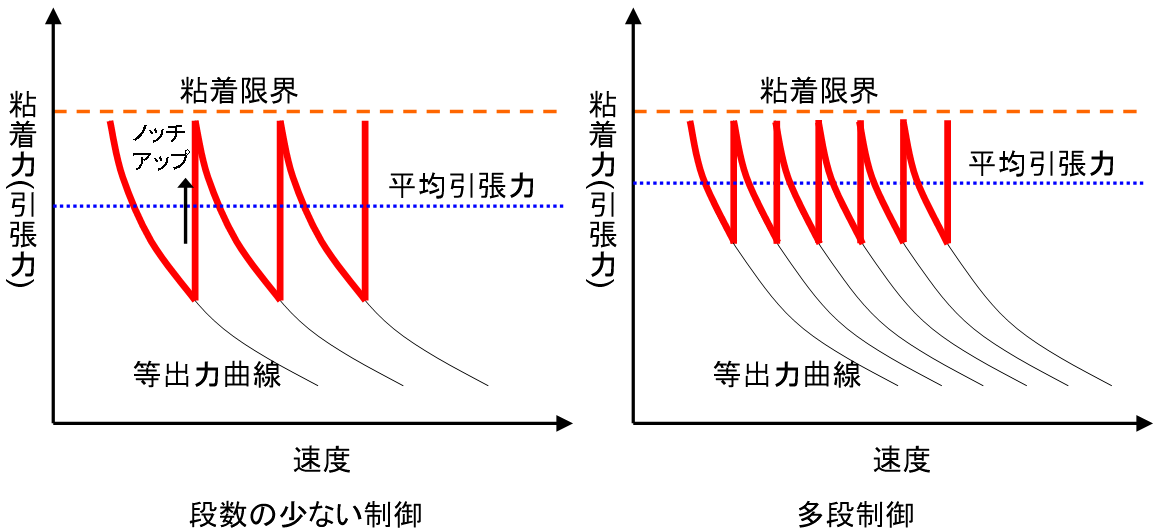 Graph of output torque of electric motor against train velocity under multi step rheostatic control, Japanese version.